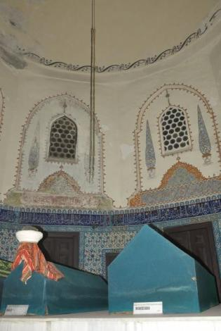 Tomb of "Mahidevran Hatun" is located along with Şehzade Mustafa's tomb